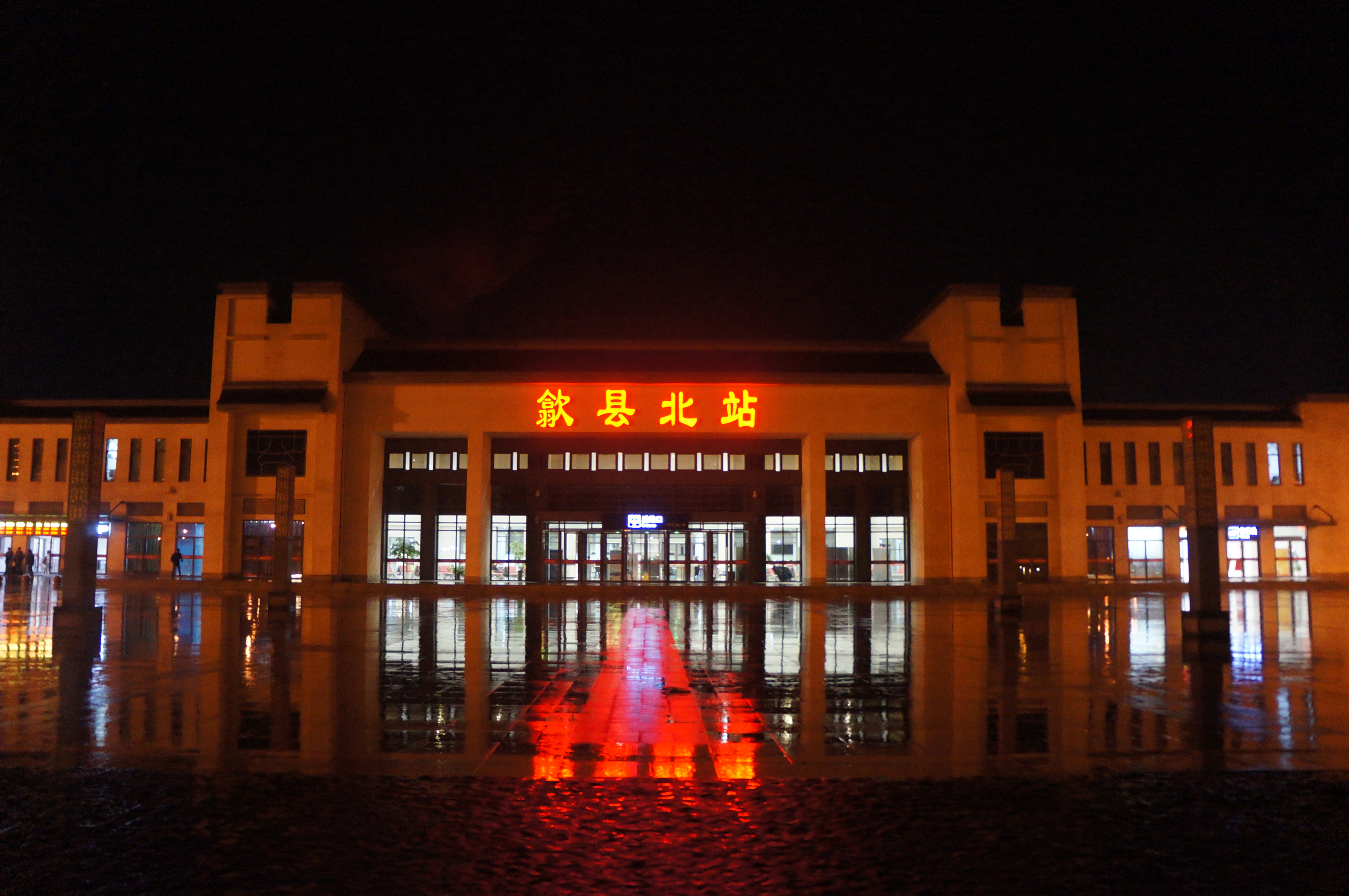 A little bit far from the county downtown...